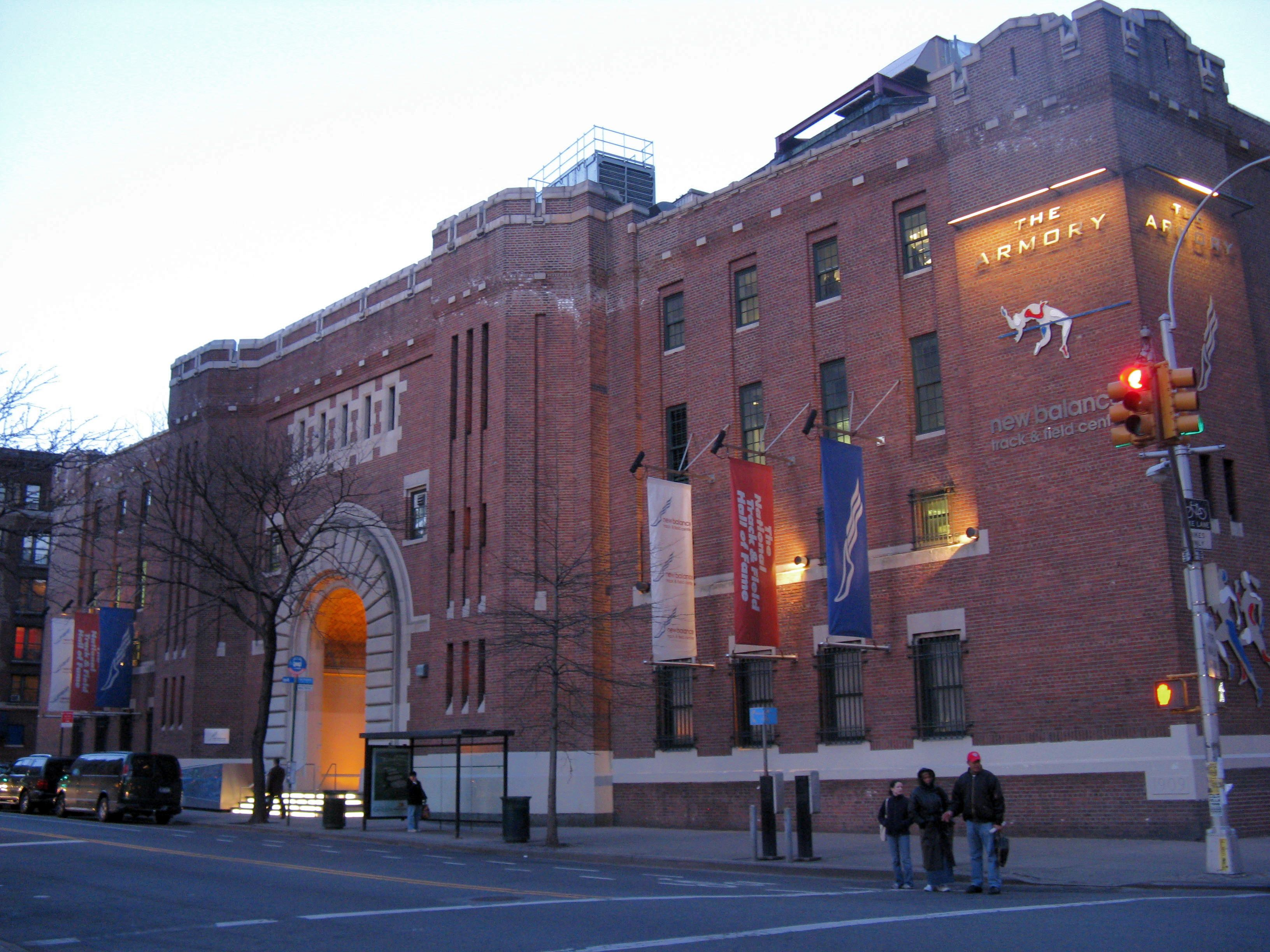 Fort Washington Armory on National Register of Historic Places in New York City